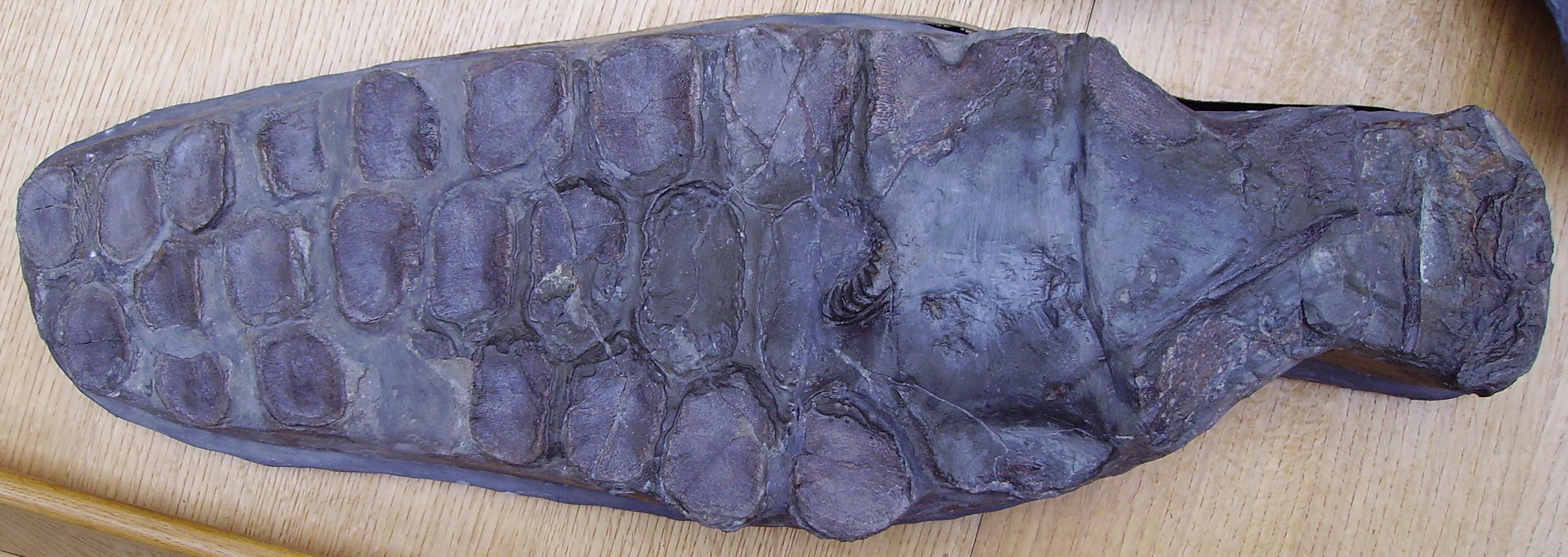 Photographer: User:Ballista